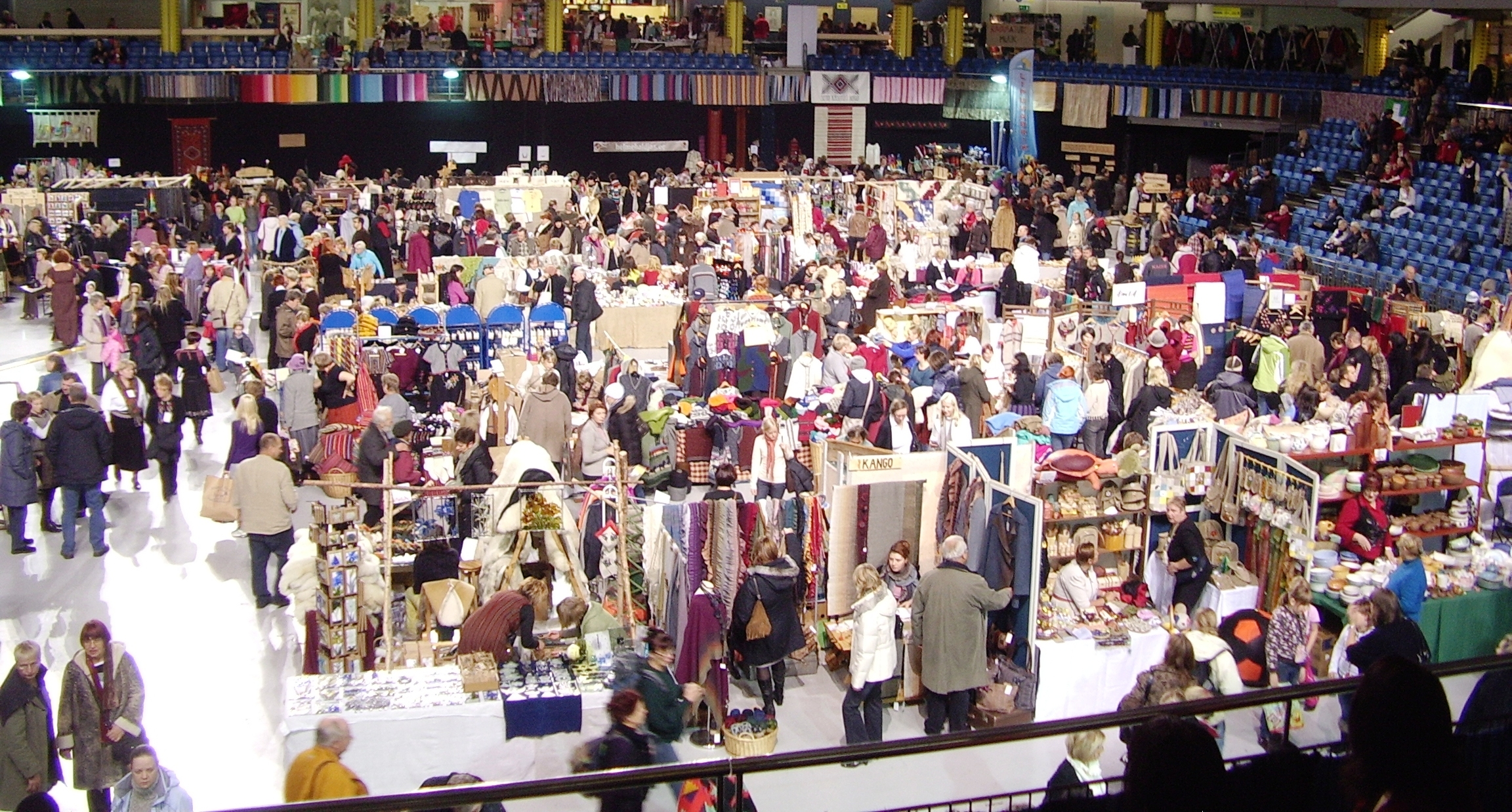 The XIII St Martin's Fair took place in November in Saku Suurhall.